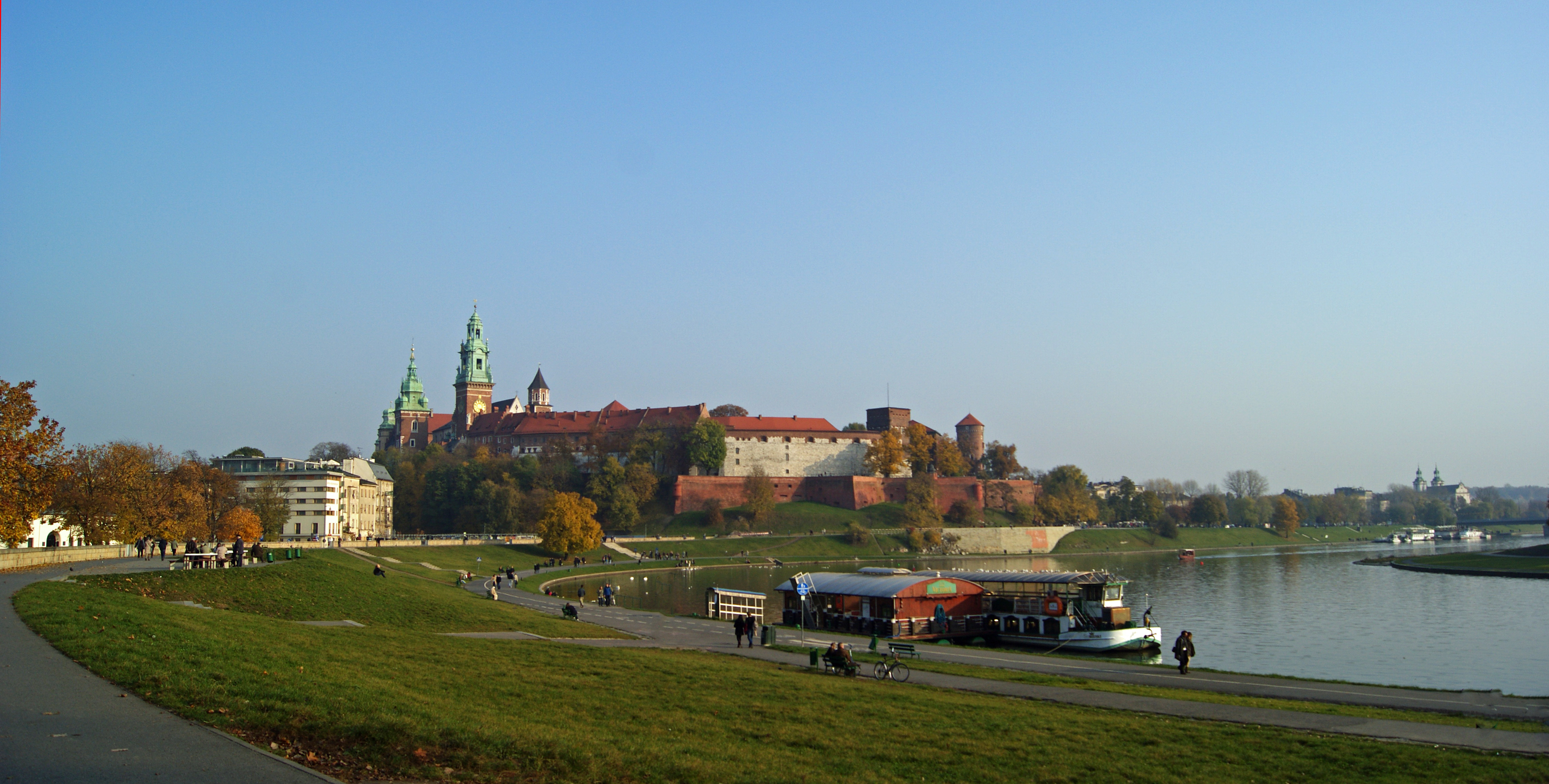 Czerwienski boulevard, Krakow, Poland